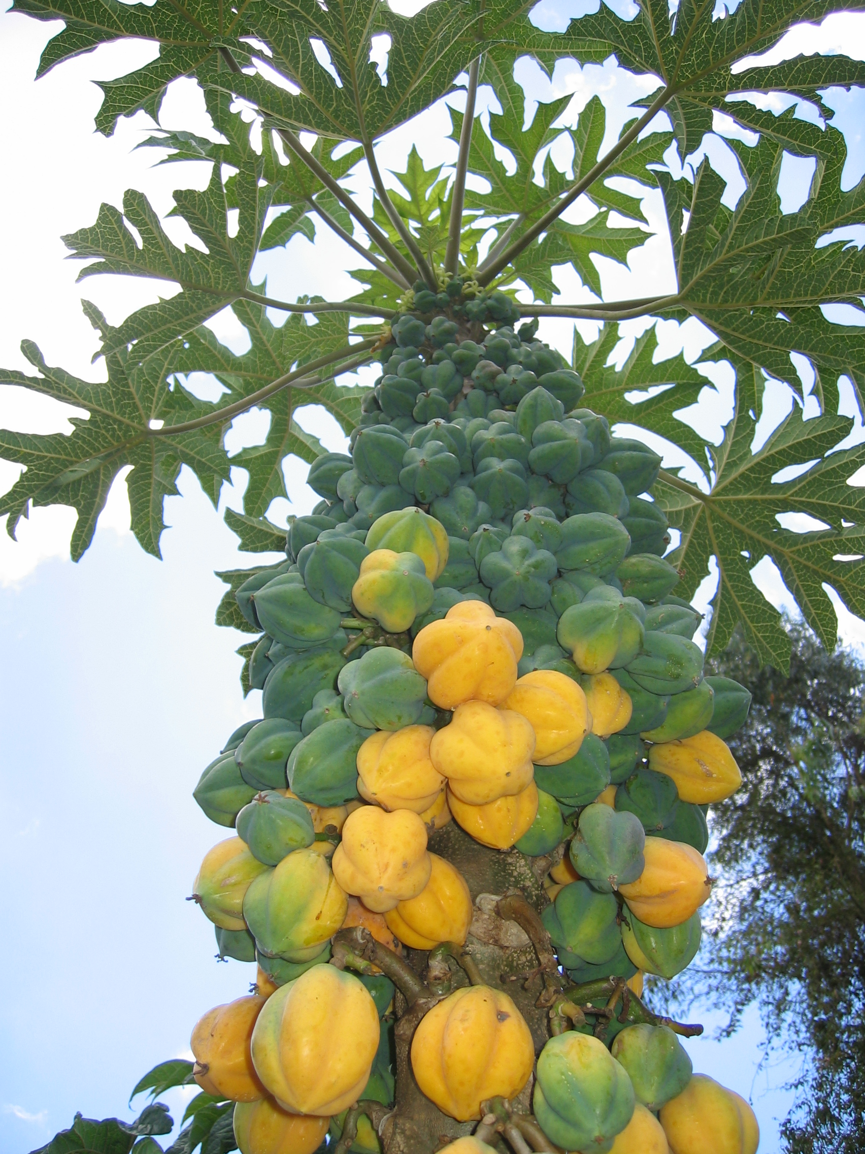 Locally called as "papayuela" in the Andean highlands. Locality: Rionegro, Colombia, CORPOICA field station, 2100 m.a.s.l.